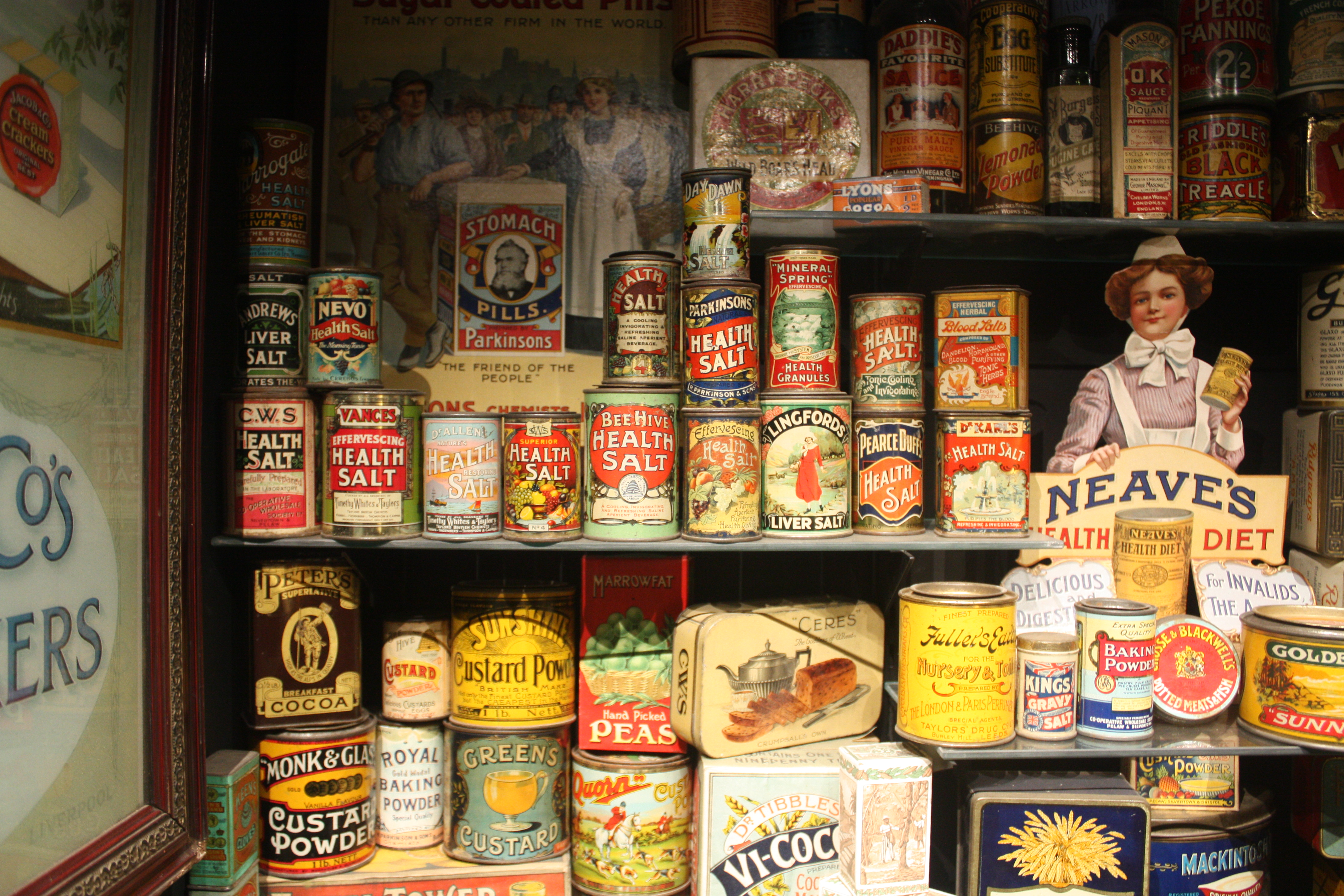 Display of historical cans at the Museum of Brands, Packaging & Advertising in London.